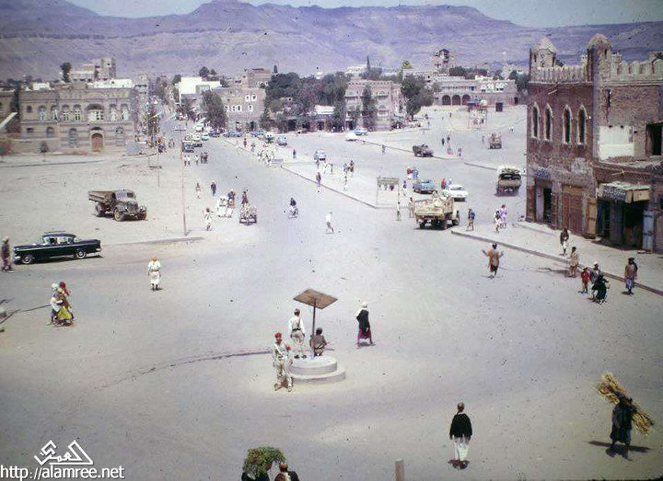 Tahrir_Square,_Sana'a 1960s